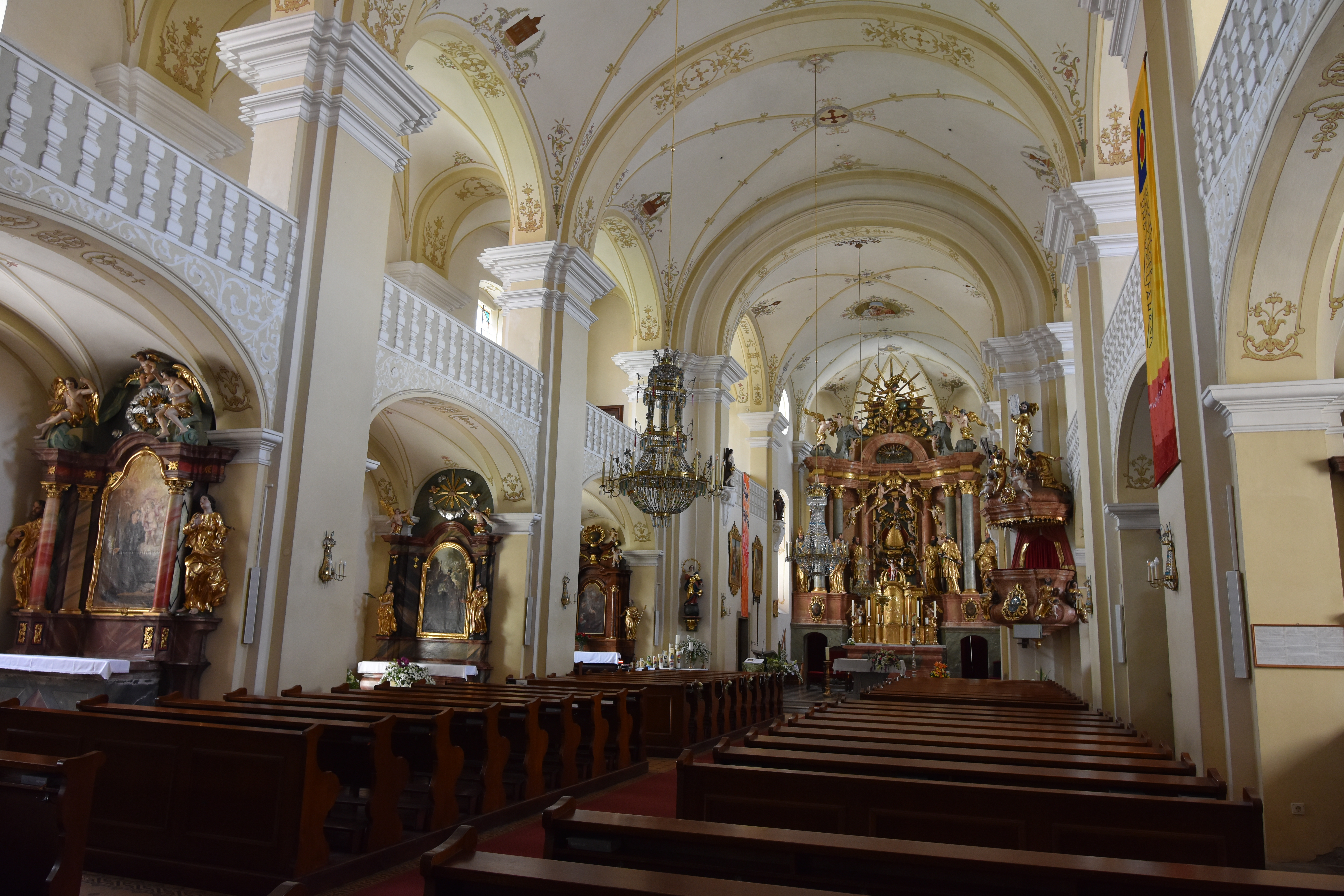 Church of the Nativity of the Virgin Mary (Arnfels) - Interior